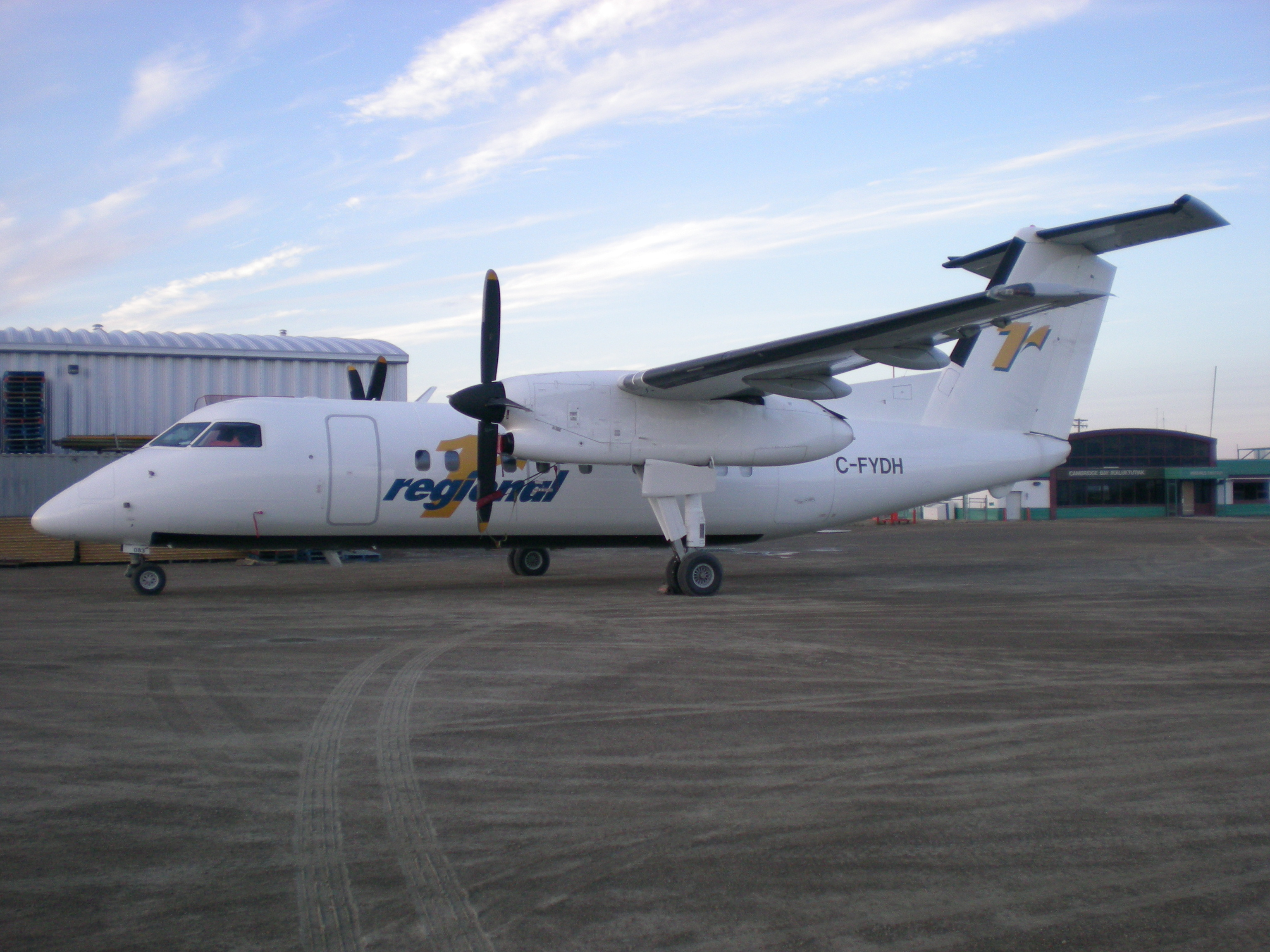 Regional 1 DHC8 Dash 8 at Cambridge Bay Airport